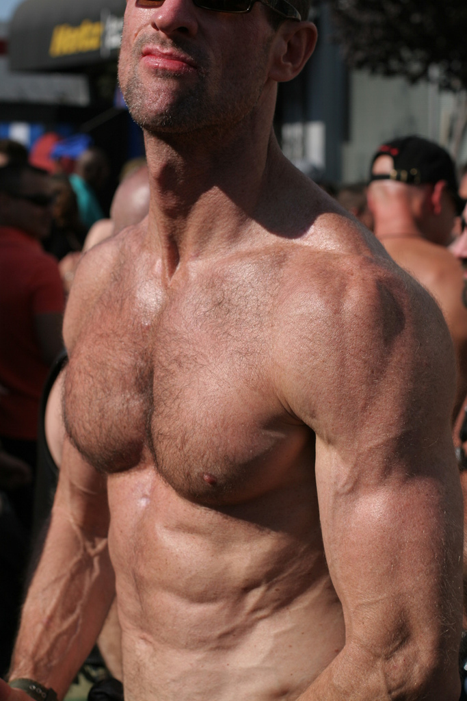 He reminded me somewhat of my current crush, being slightly older and not having a drop of body fat anywhere. He's probably also like my current crush in that he's a sweet, intelligent, nice man with a busy life and a remarkable ability to send ambiguous signals.